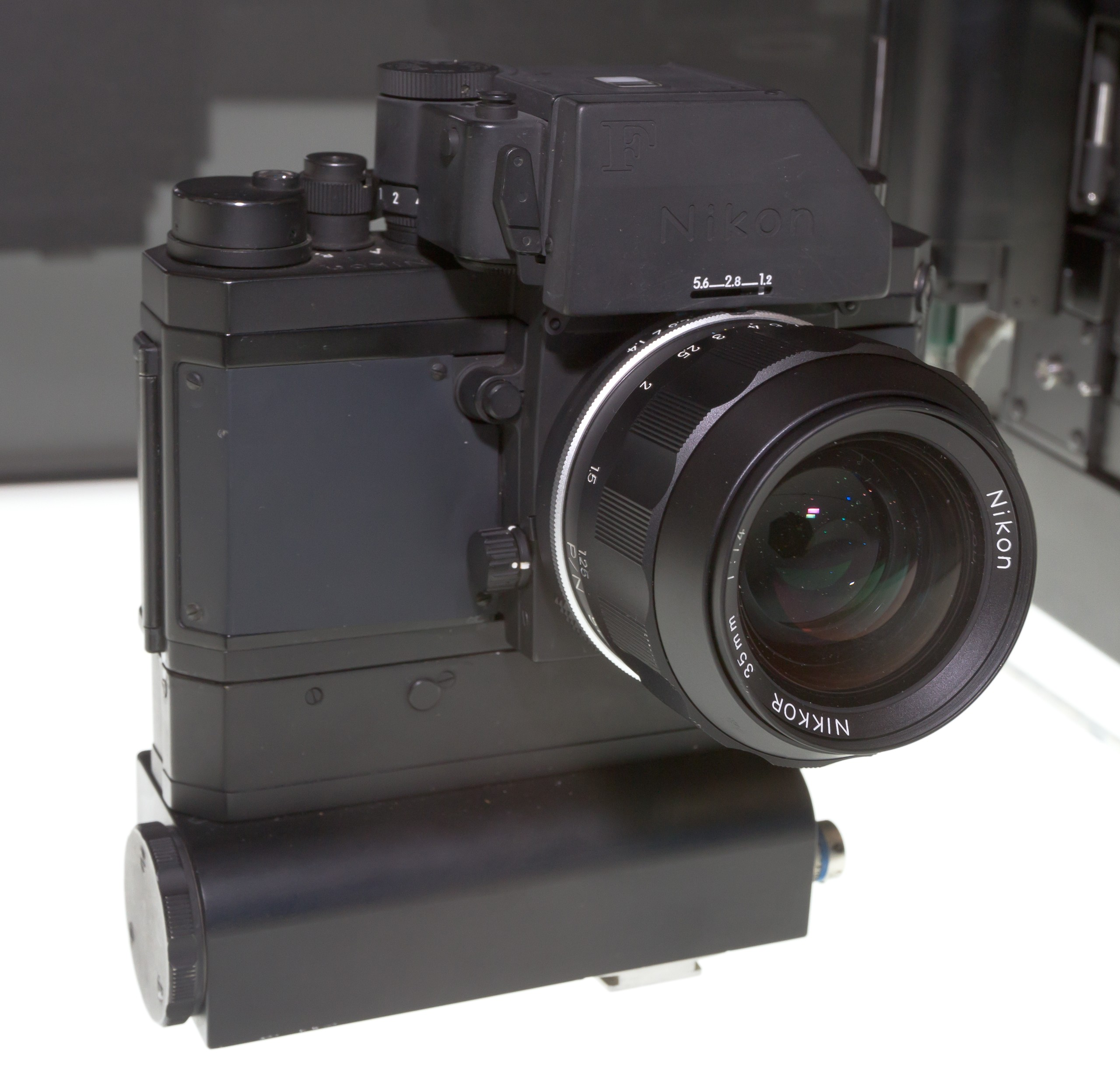 CP+ 2012: 1971 Nikon Photomic FTn NASA Modified